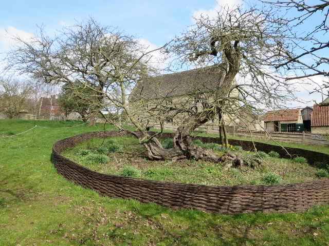 This is a photo of Isaac Newton's apple tree, with the house where he was born in the back ground.